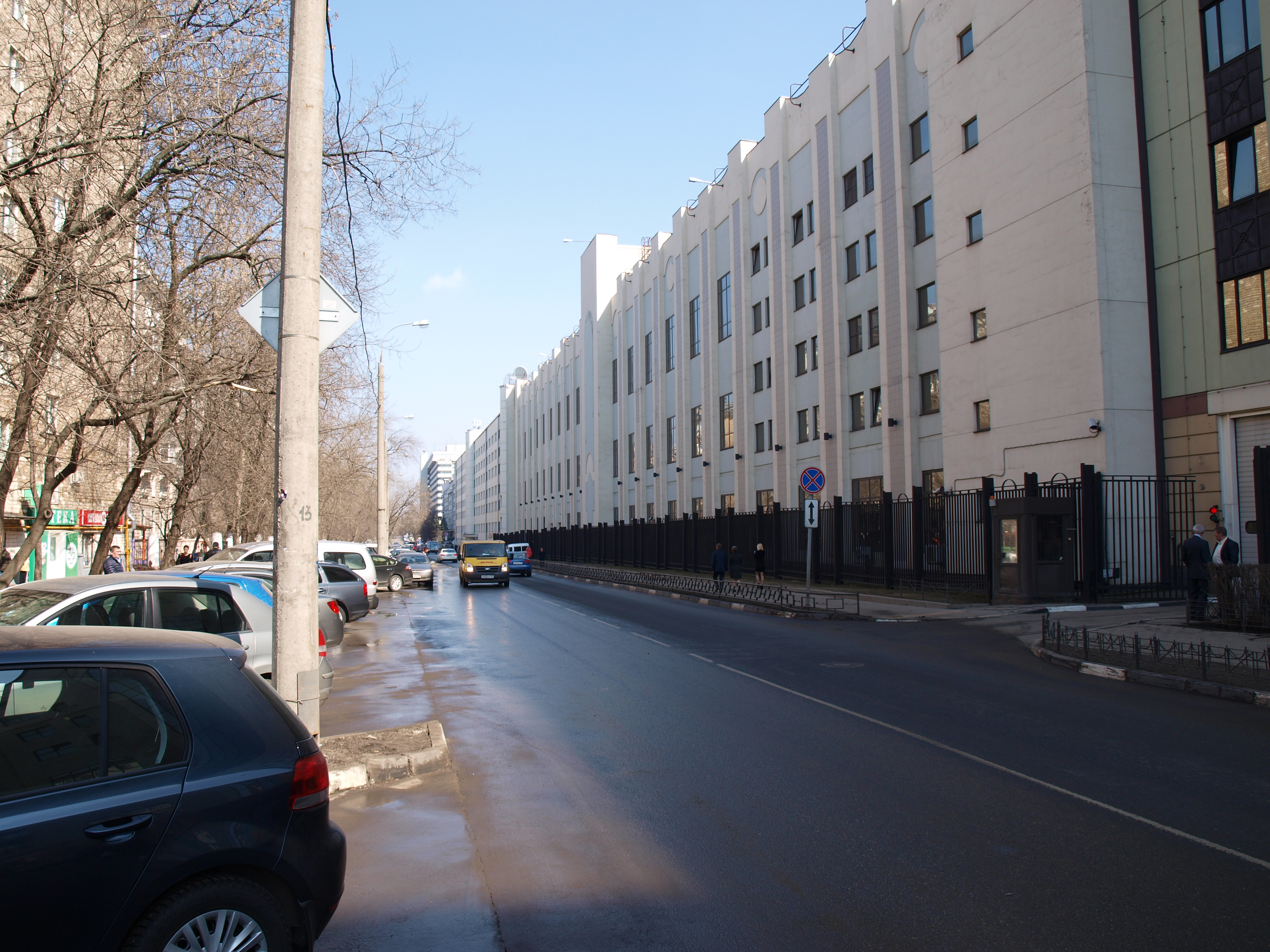 Pravdy Street in Moscow